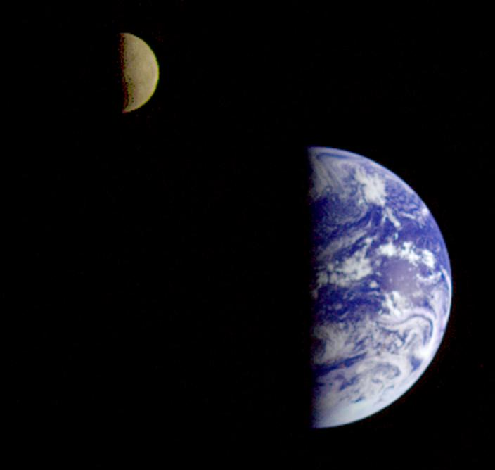 From 4 million miles away on December 16, 1992, NASA's robot spacecraft Galileo took this picture of the Earth-moon system. Our moon is one of the largest moons in the solar system. It is even larger than the planet Pluto. In this picture, the Earth-moon system actually appears to be a double planet. The bright, sunlit half of the Earth contrasts strongly with the darker subdued colors of the moon. The terminator (day-night-line) is much less sharp on earth because of atmospheric refraction (twilight).